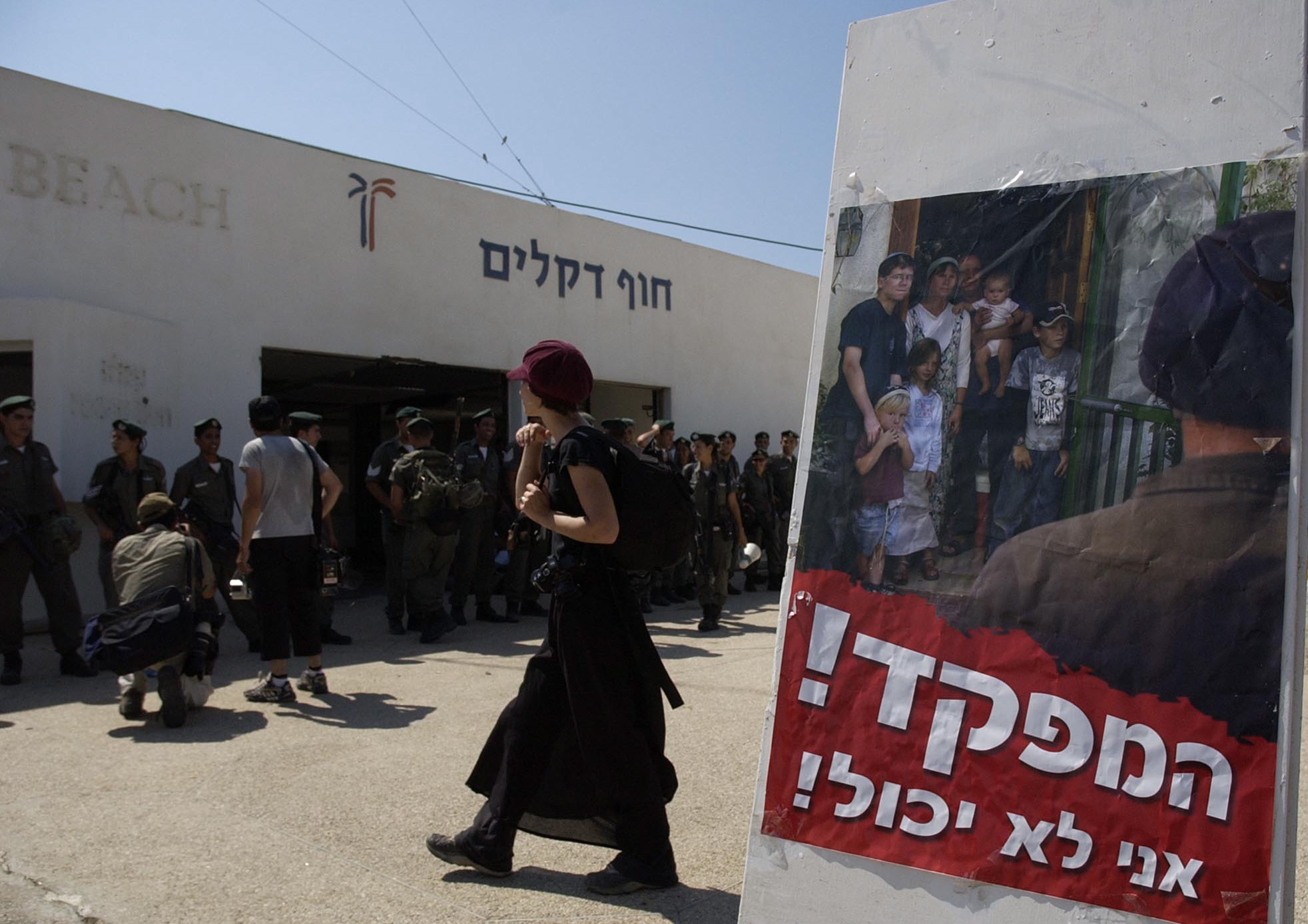 June 30, 2005. Pictured: A poster put up by extremist residents which reads "Commander! I can't!" in regards to the disengagement operation. Security forces broke into the Neve Dekalim Hotel and cleared out 150 right wing extremists that had barricaded themselves inside. The police were forced to break in with metal ladders and, using megaphones, demanded that the residents evacuate. The head of the Southern Command, Maj. Gen. Dan Harel, said after the operation: "The peoples' actions here were unacceptable. Some will be removed from the area and other will be arrested. I hope that the quiet that was once typical of the region will return. The people of this region have a legitimate right to protest but the decision to close the Strip stands."